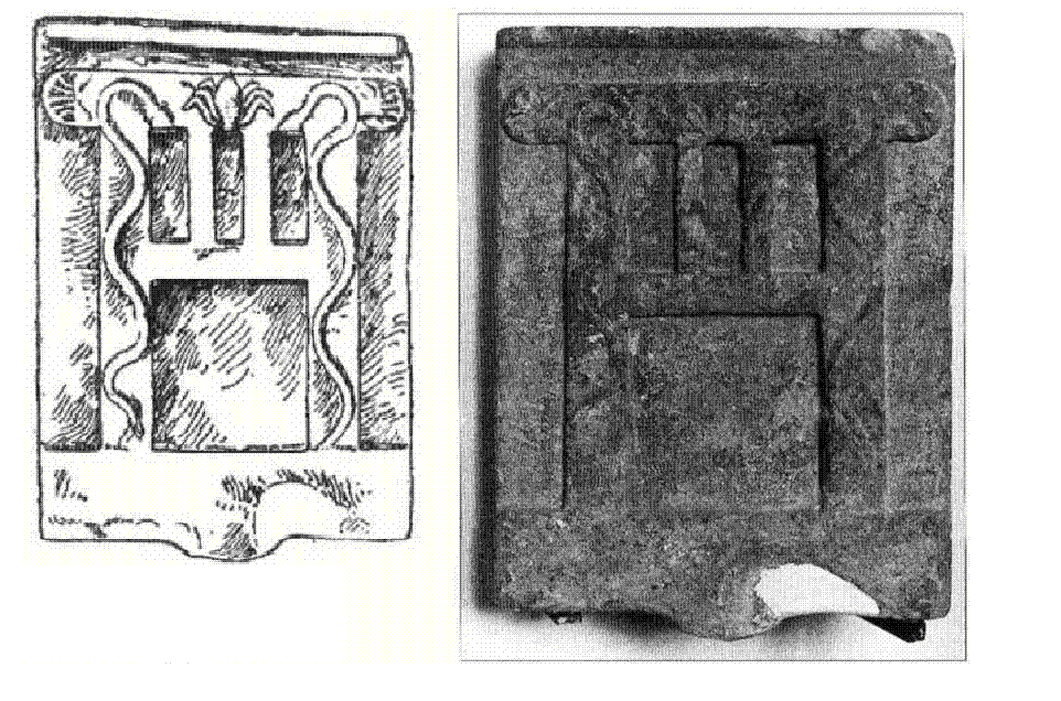 Spartan Dokano. The symbol of Sparta that always followed the king during the campaigns. Archaeological museum of Sparti. Greece